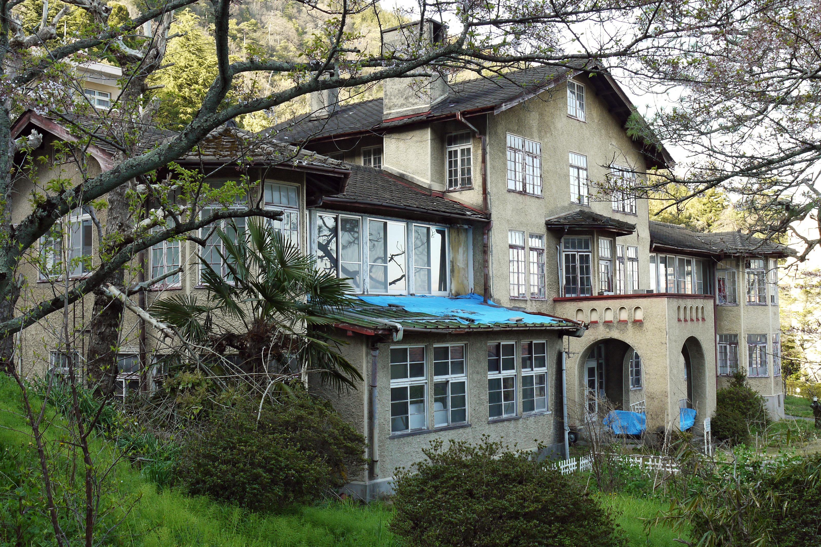 The Zucker House of Vories commemoration hospital in Omihachiman, Shiga prefecture, Japan. It was built in 1918.